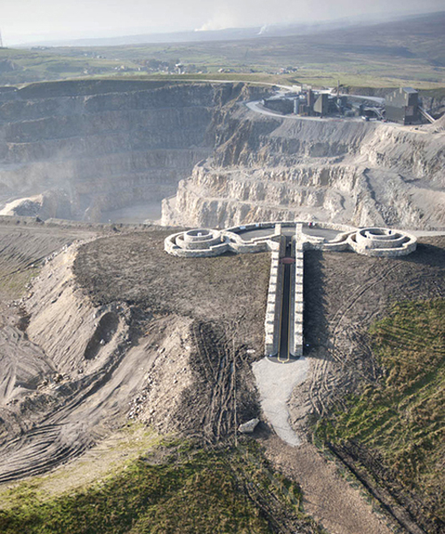 'The Coldstone Cut', Andrew Sabin, 2010